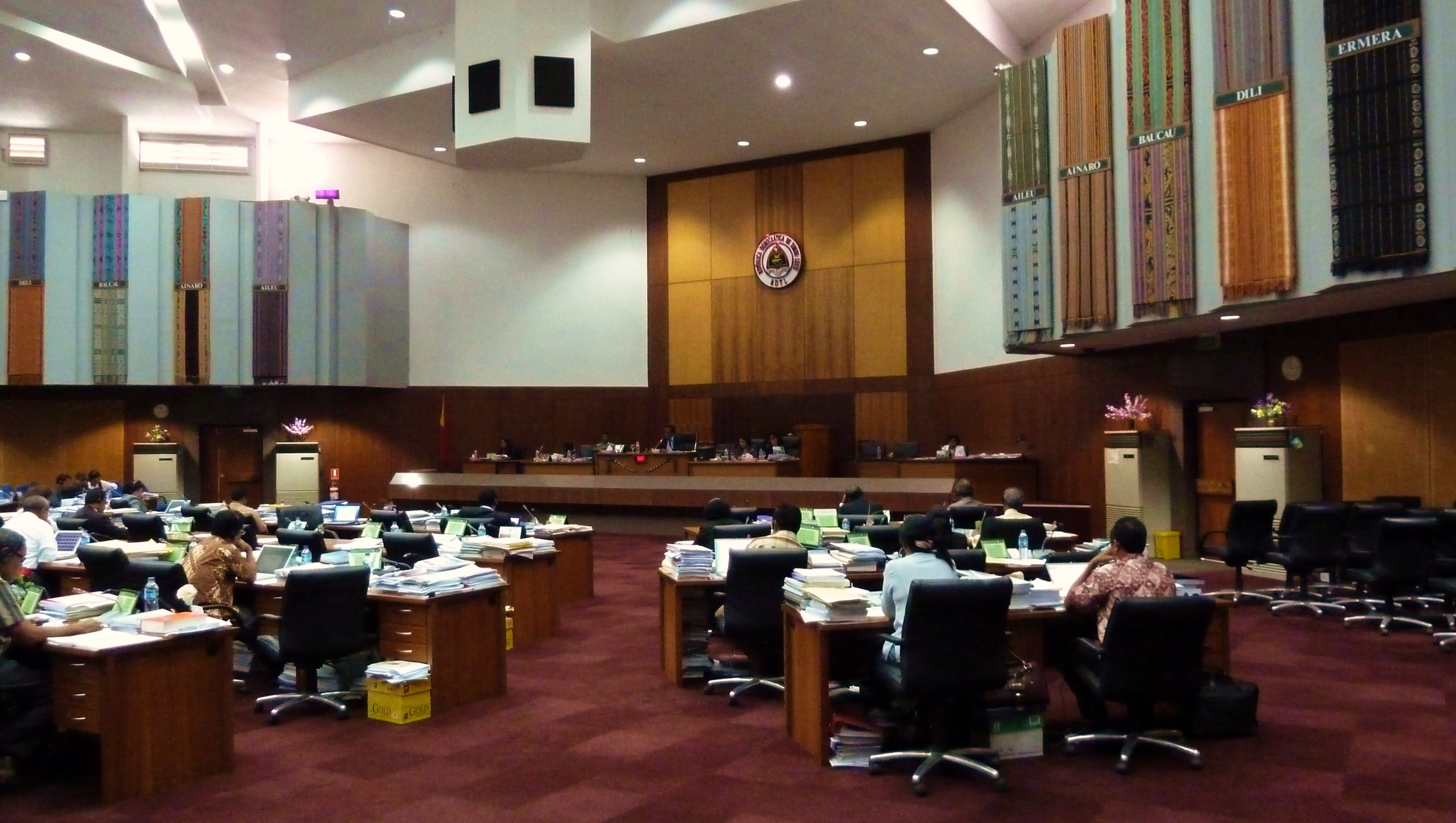 Nationalparliament East Timor